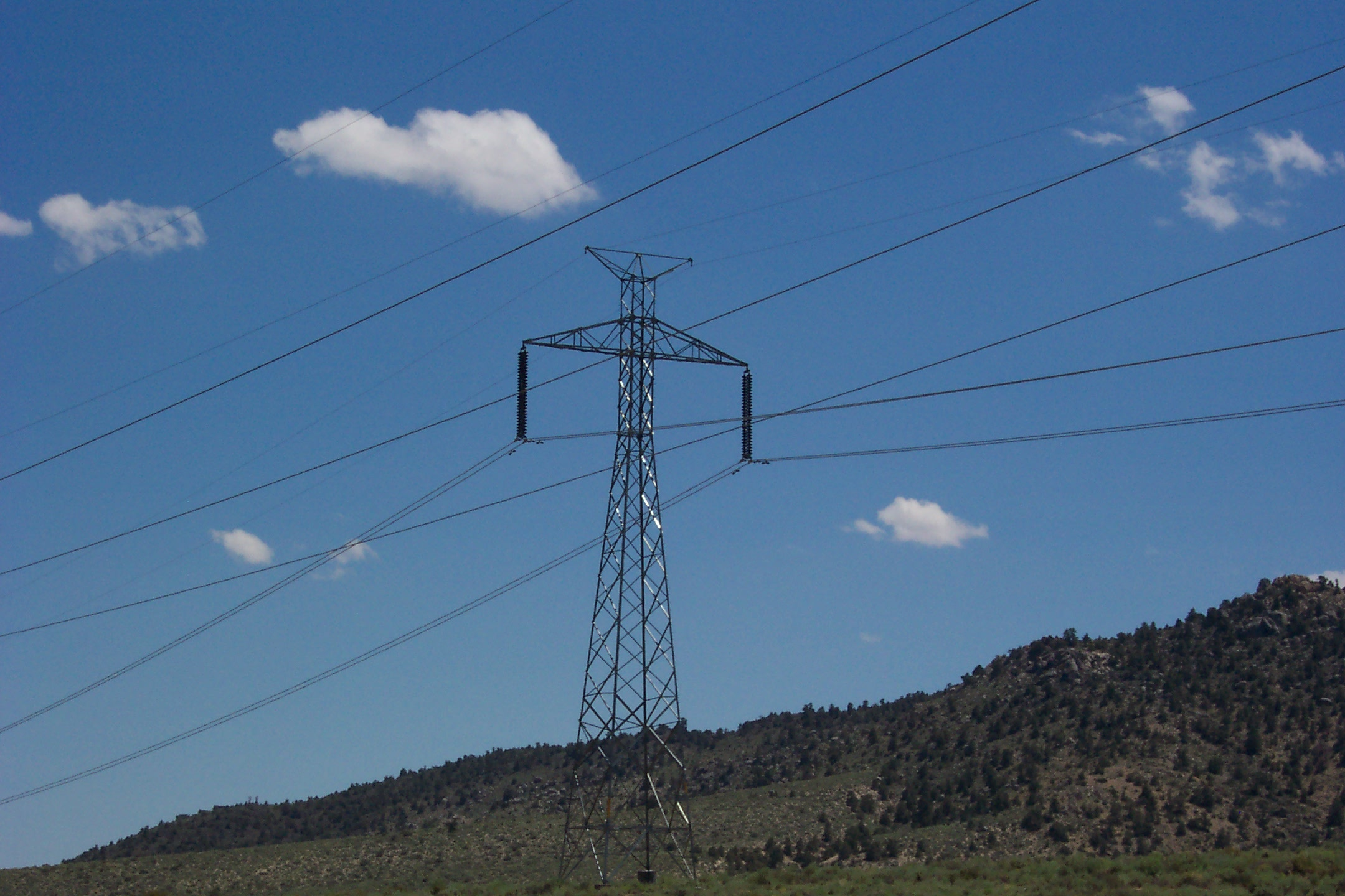 A power line tower on Path 65, part of the Pacific DC Intertie outside Benton, CA, near the CA/NV border. 500,000 Volts DC, 7,200 Amps, up to 3.6 Gigawatts (3,600 MW). Needs VERY long insulators.